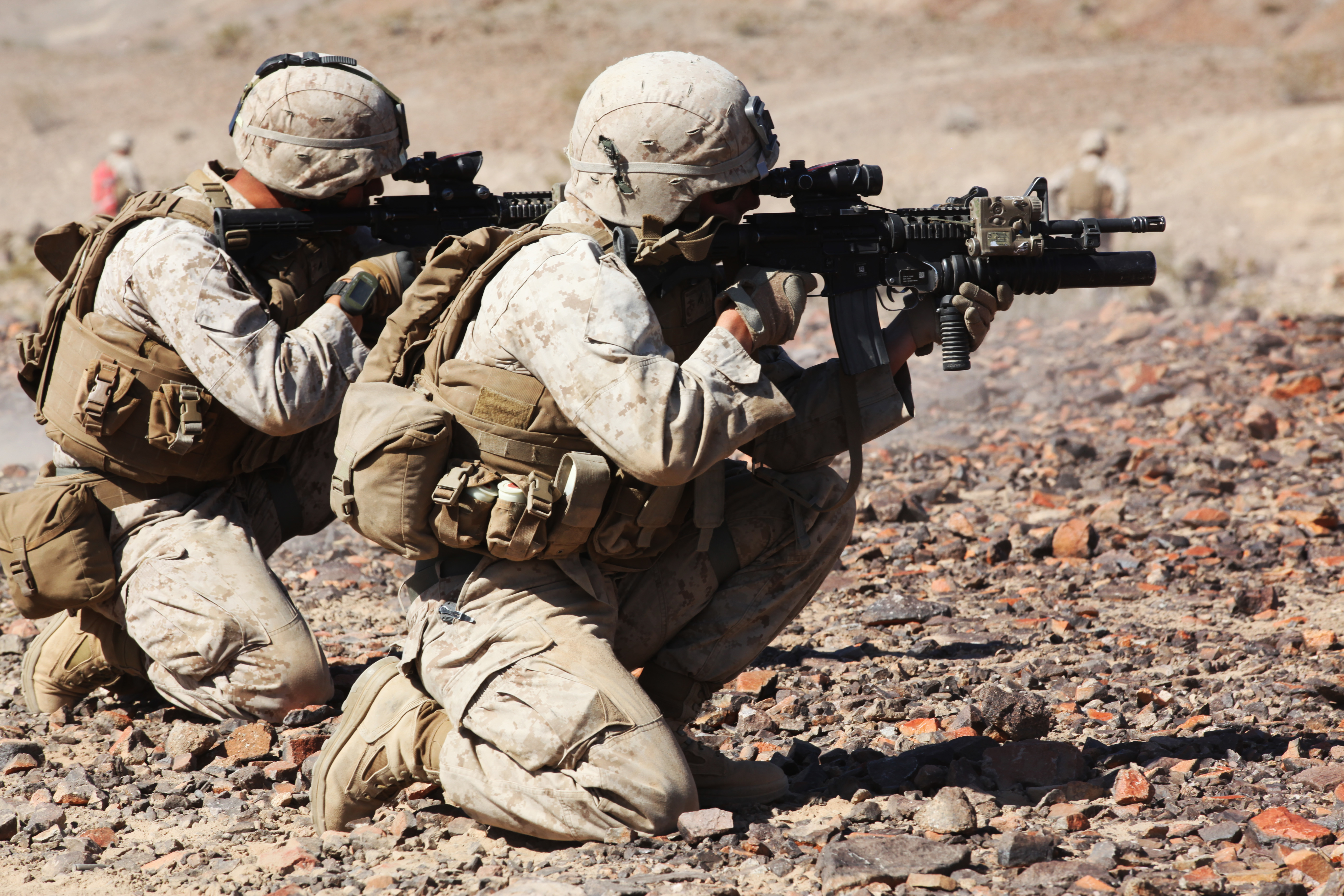 Lance Cpl. Ian M. Madden (front), a team leader Company A, 1st Battalion, 7th Marine Regiment, 1st Marine Division, engages notional enemy targets during a mechanized raid during Exercise Desert Scimitar 15, April 15, 2015. Desert Scimitar is designed to provide tough, realistic live-fire training that allows the 1st Marine Division to maintain readiness and meet current and real-world operational demands.